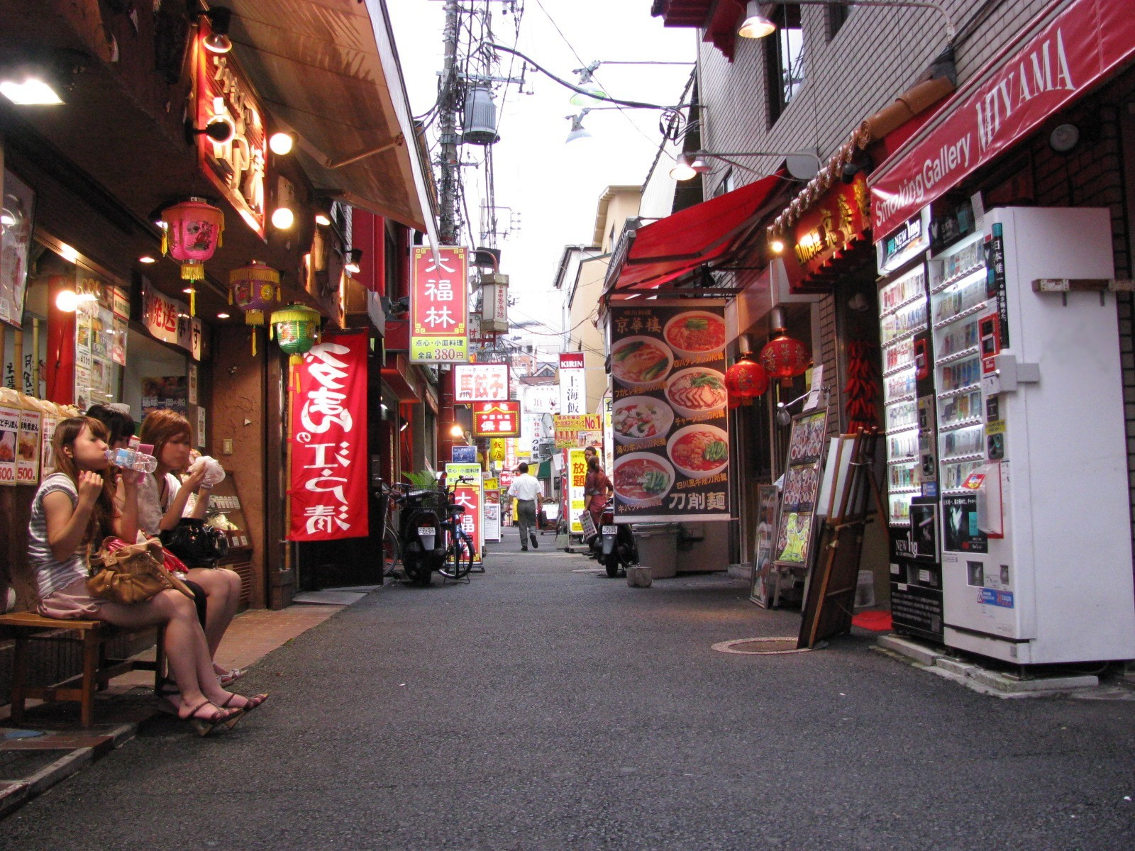 Yokohama Chinatown.